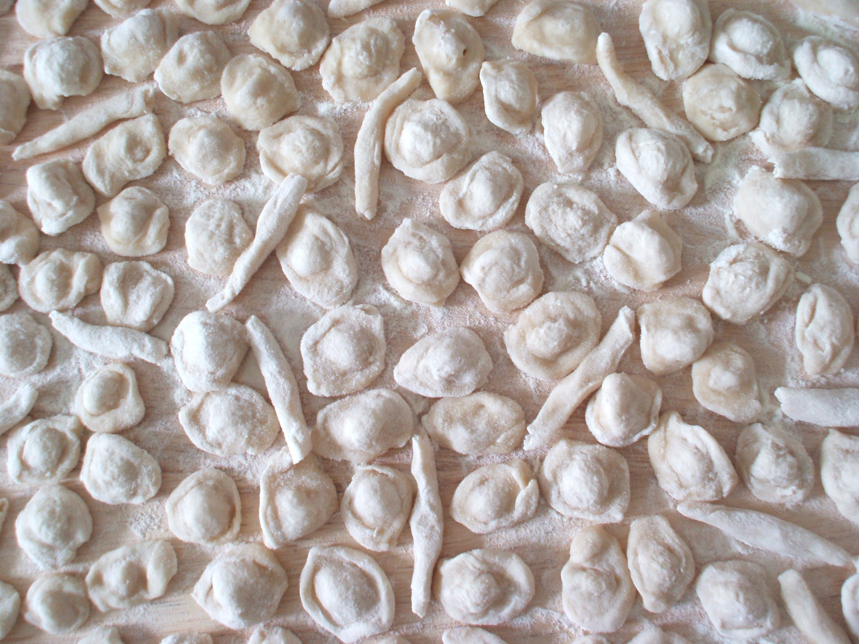 Original Orecchiette from Salento